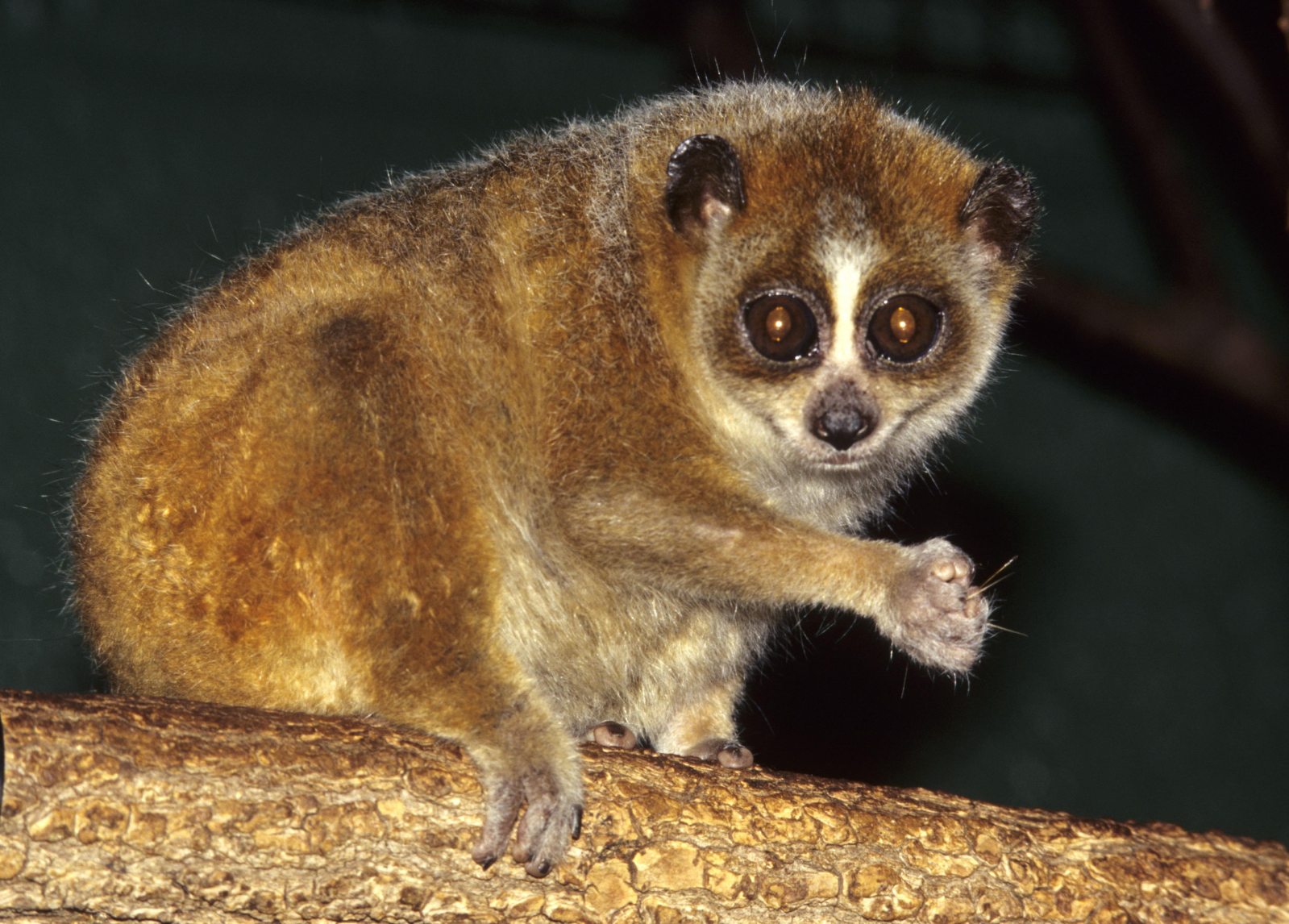 A Pygmy Slow Loris (Nycticebus pygmaeus) at the Duke Lemur Center in Durham, North Carolina.